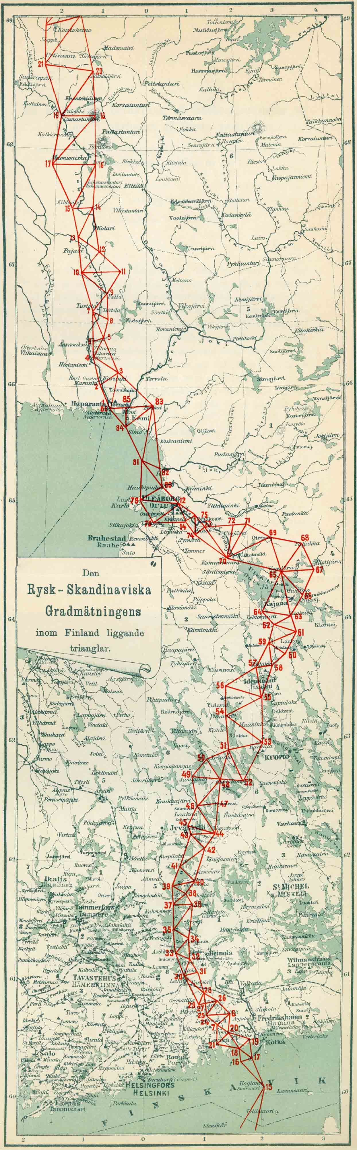 The Struve Geodetic Arc in Finland - map